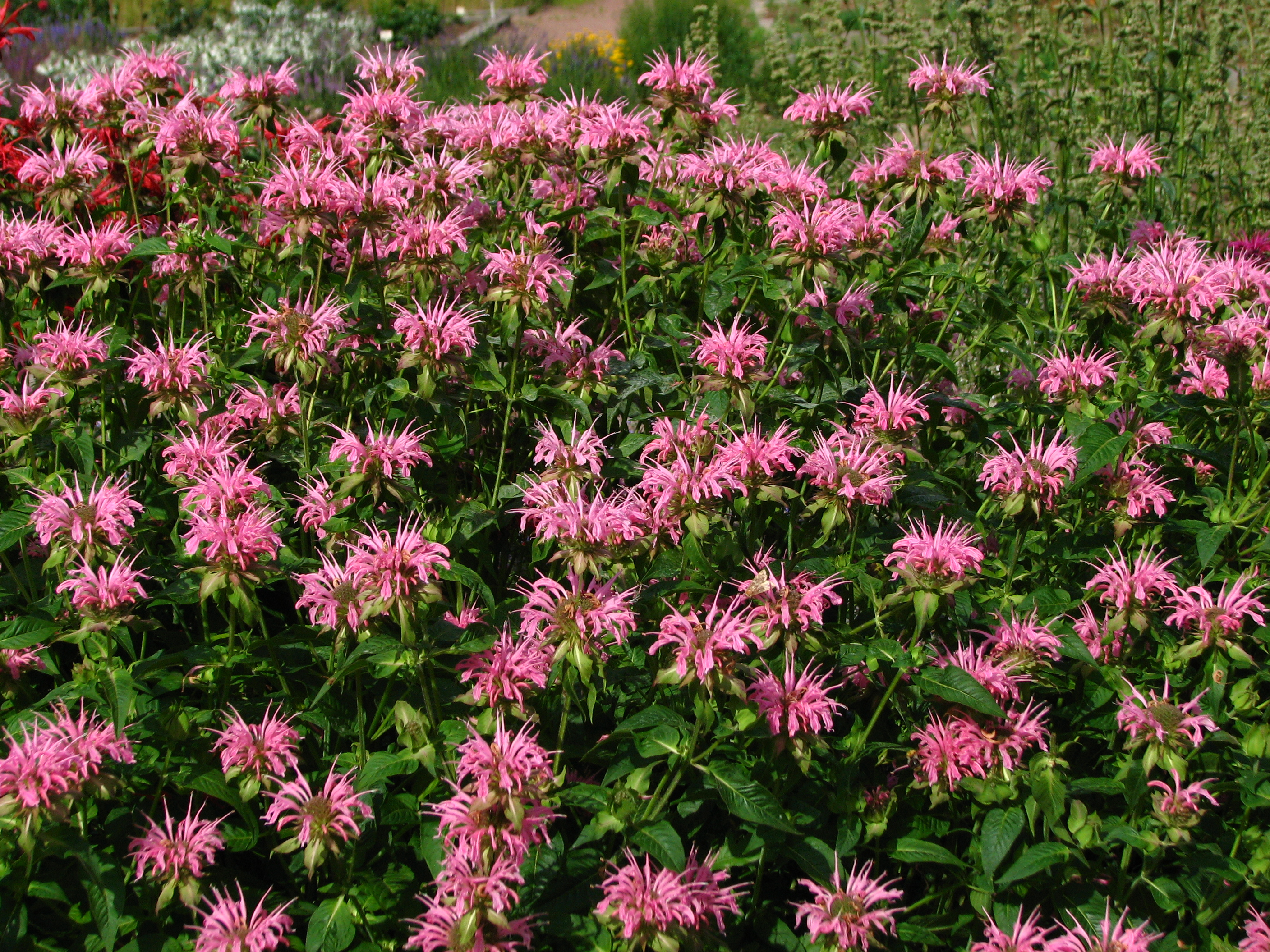 Monarda didyma 'Croftway Pink'. From the collection of the Main Botanical Garden of Academy of Sciences in Moscow (perennials plot).